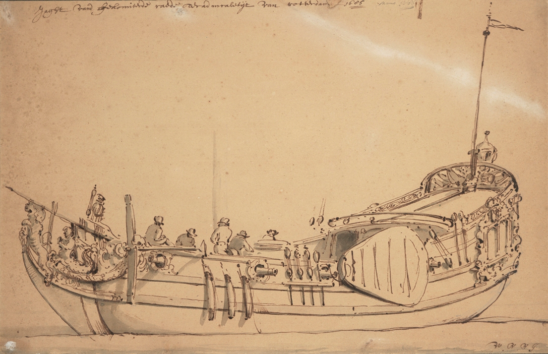 Yacht of the Admirality of the Maas, Rotterdam